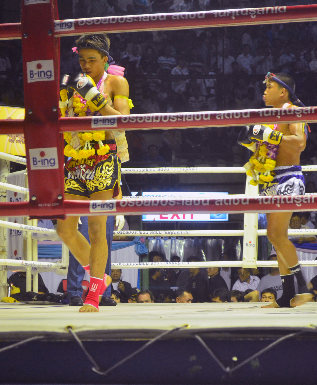 Rittidet & Superbank